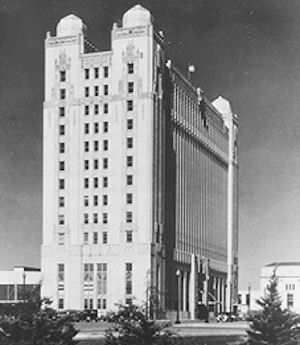 From 1942 to 1946, Army Air Forces Flying Training Command (later AAF Training Command) was headquartered in Fort Worth, Texas. The command initially occupied the top four floors of the Texas and Pacific Railway office building.